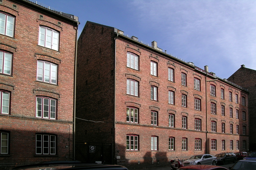 Herslebs gate 32-34, Oslo. Apartment blocks erected 1889-1890. Architect probably Harald Olsen.